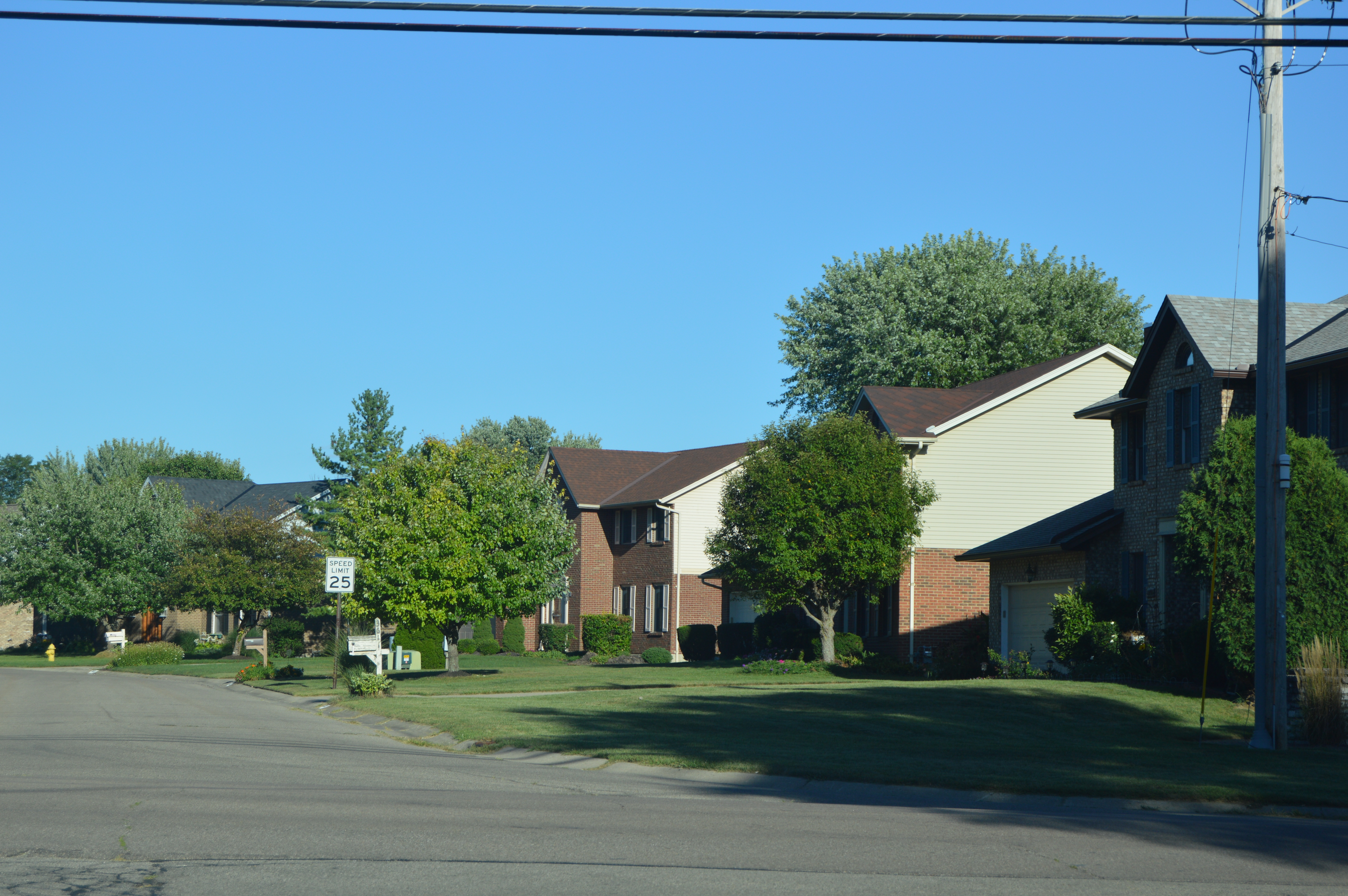 A typical late-twentieth-century suburban neighborhood in southwestern Ohio, United States. Photo looks eastward on Saratoga Drive from the Morris Road intersection in Fairfield Township, Butler County.